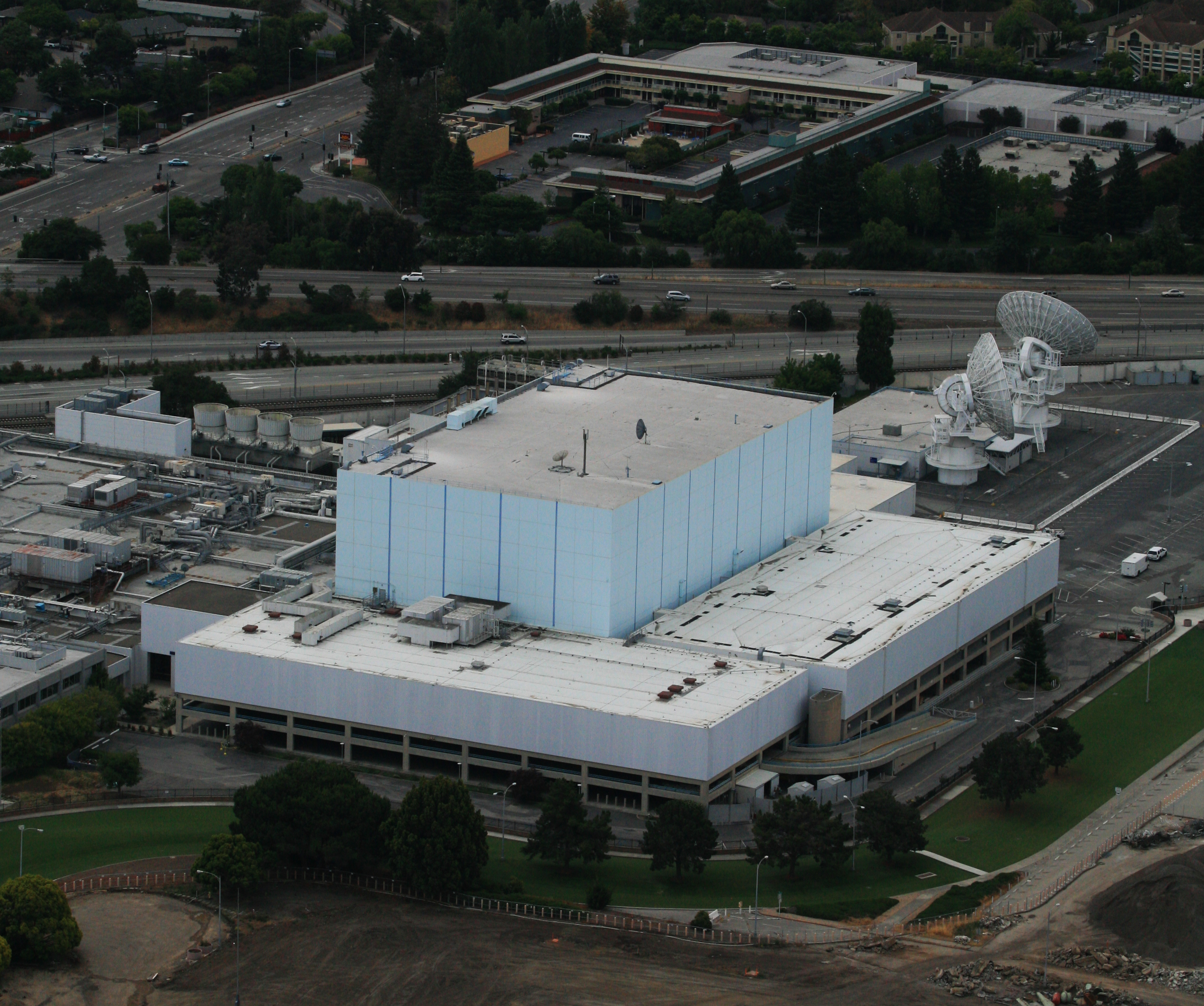 Also known as "Silicon Valley’s most likely target in the event of a Soviet nuclear attack." Known to Lockheed employees (with high enough security clearances) as the Sunnyvale Air Force Station, and it kept track of military satellites. In 1983 the Air Force admitted its ability to keep track of the government's military and intelligence satellites was "dependent on the single satellite control facility (SCF) located at Sunnyvale, California."